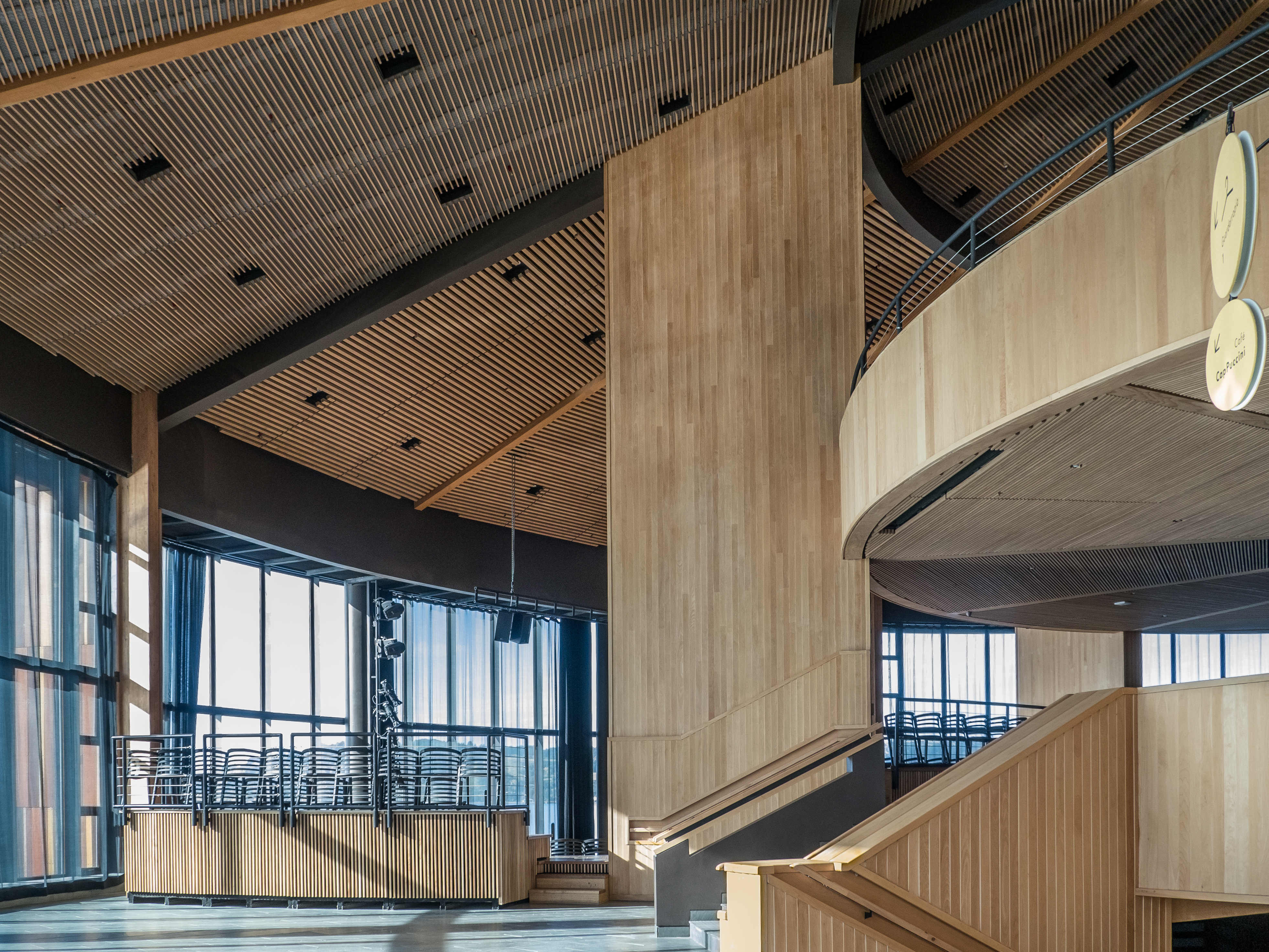 Theatro del Lago in Frutillar at Lake Llanquihue